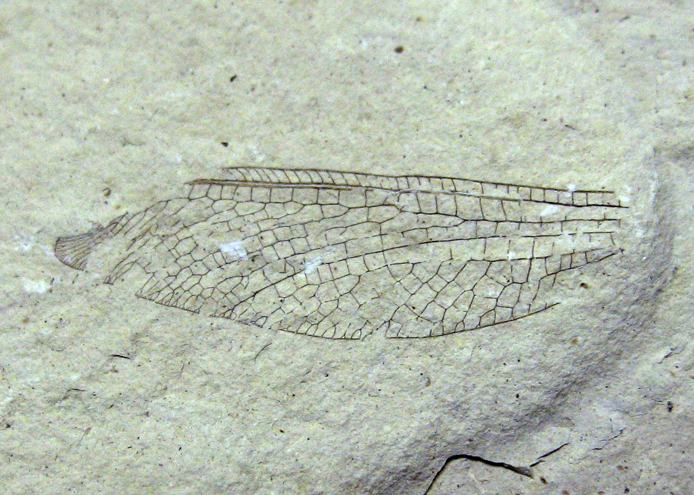 Holotype of the extinct lacewing species Nymphes georgei. 49.5 million years old, Tom Thumb tuff Member Klondike Mountain Formation, Ferry County, Washington, USA. Found by Steve George. Stonerose Interpretive Center specimen SR 09-07-08